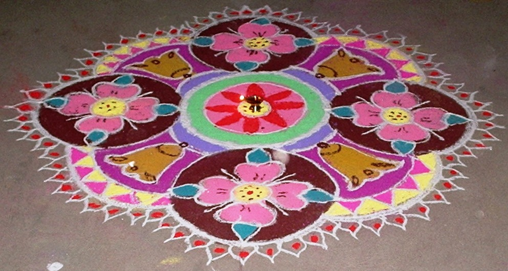 Colourful rangoli with a lamp in the middle. From Chennai, February 2003.